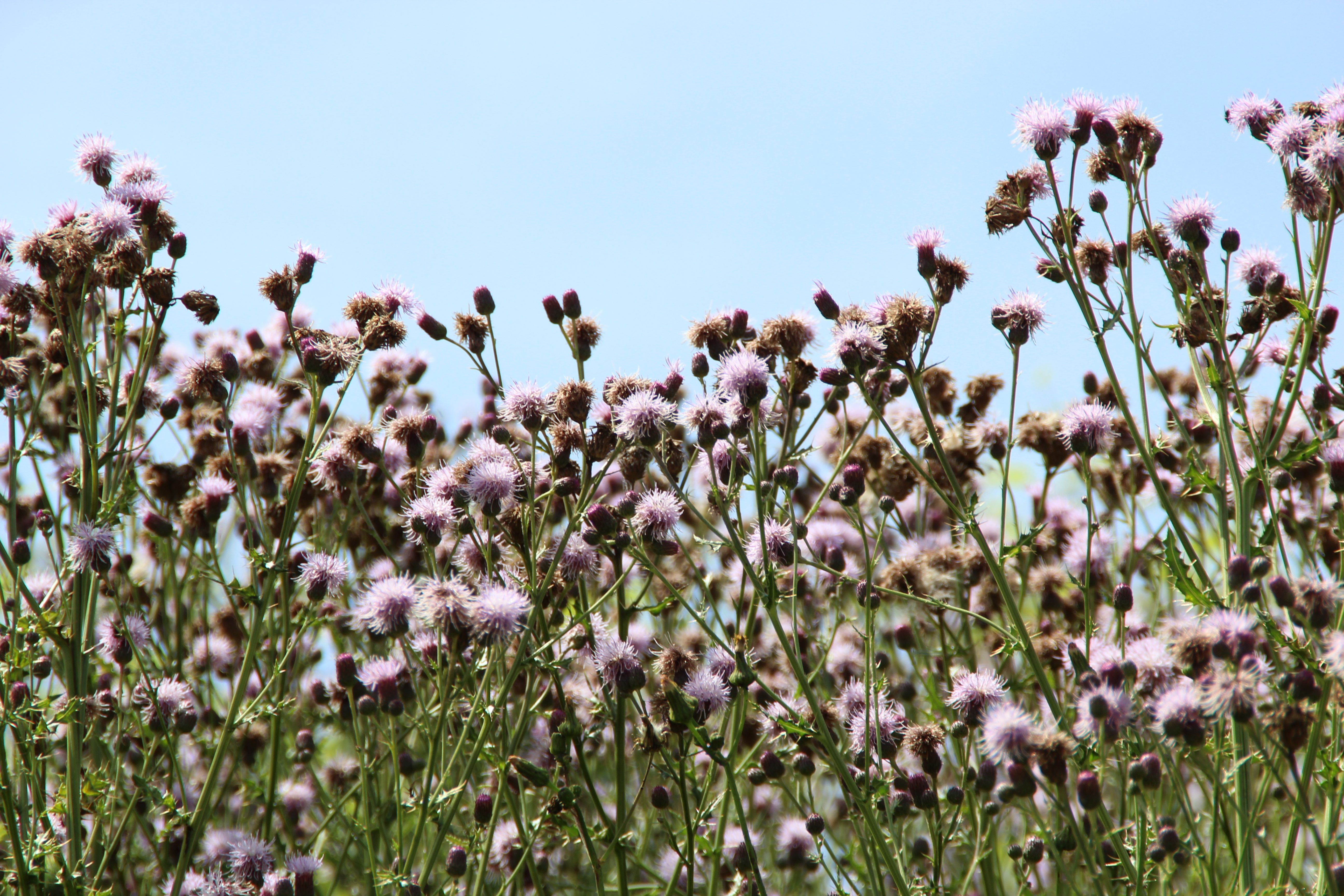 Creeping Thistle Cirsium arvense in Voisins-le-Bretonneux, France.